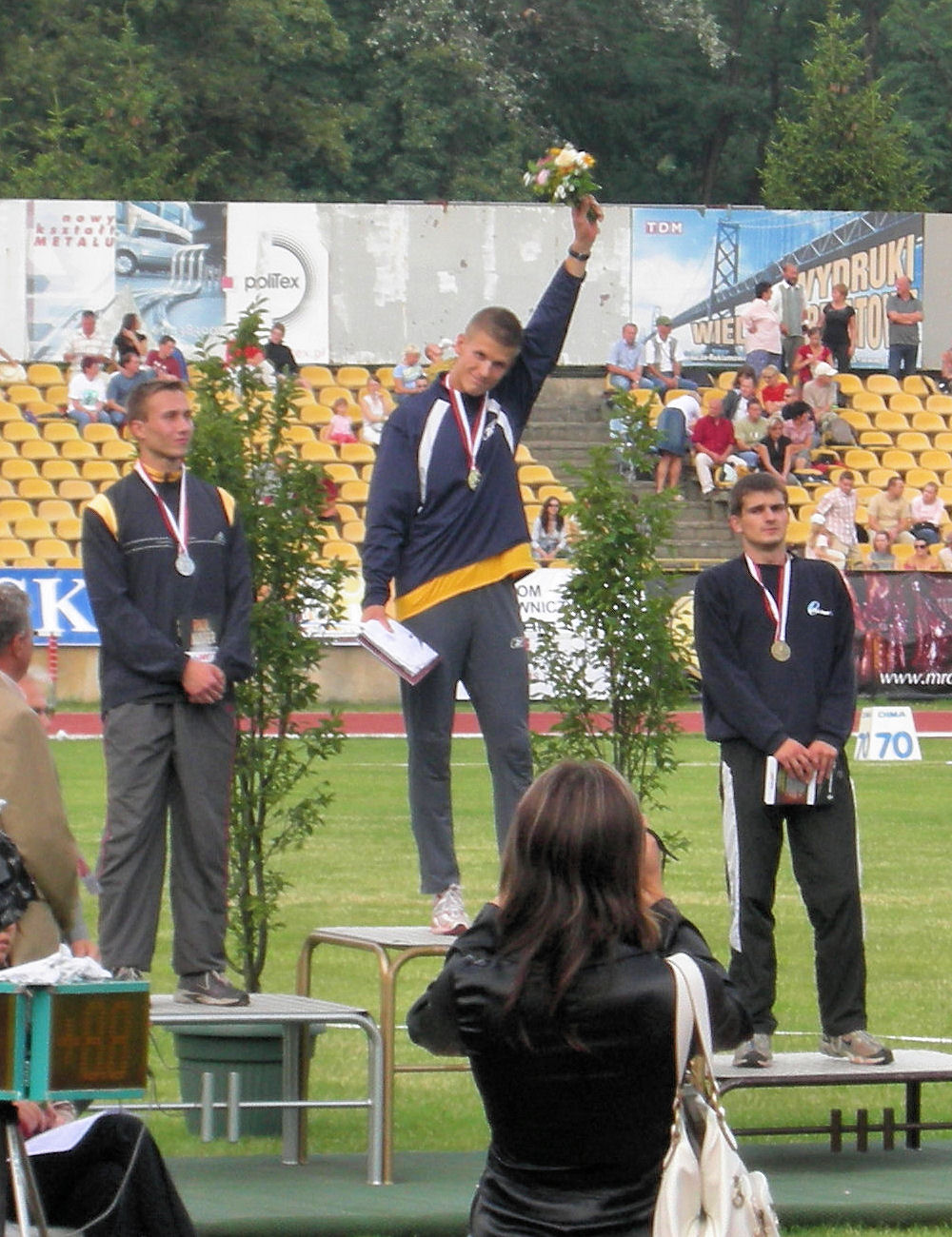 athletes from Poland during Polish Championship in athletics 2007 - Poznań, winner - Marcin Jędrusiński